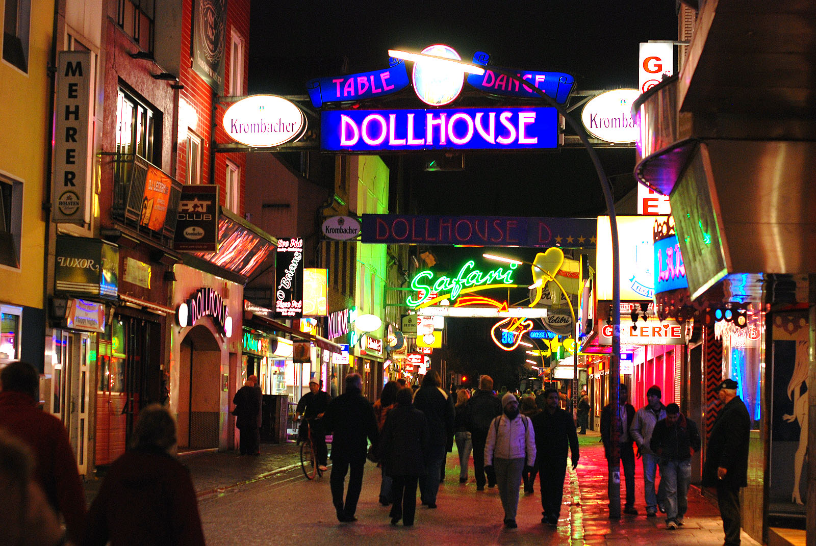 Reeperbahn at night. More precisely, this is Grosse Freiheit, made famous by the Beatles. There is also di Kleine Freiheit, but it is residential.